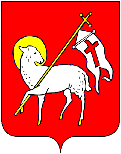 Coat of arms of the municipality of Brixen, South Tyrol.